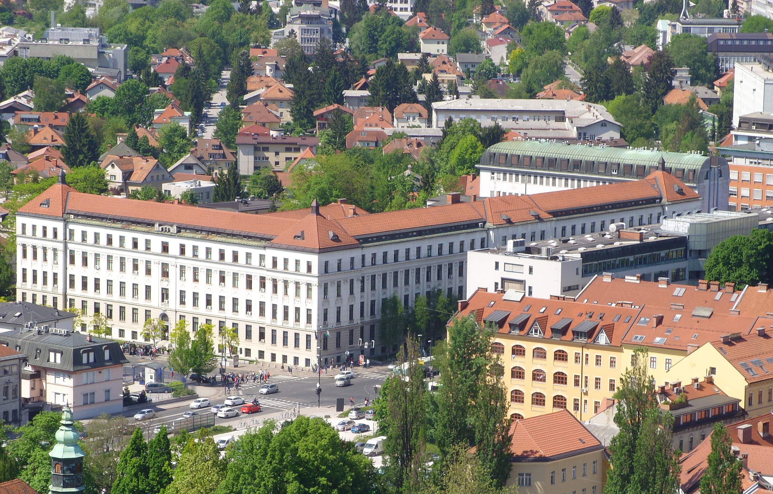 School Centre Ljubljana, Aškerčeva 1, Slovenia